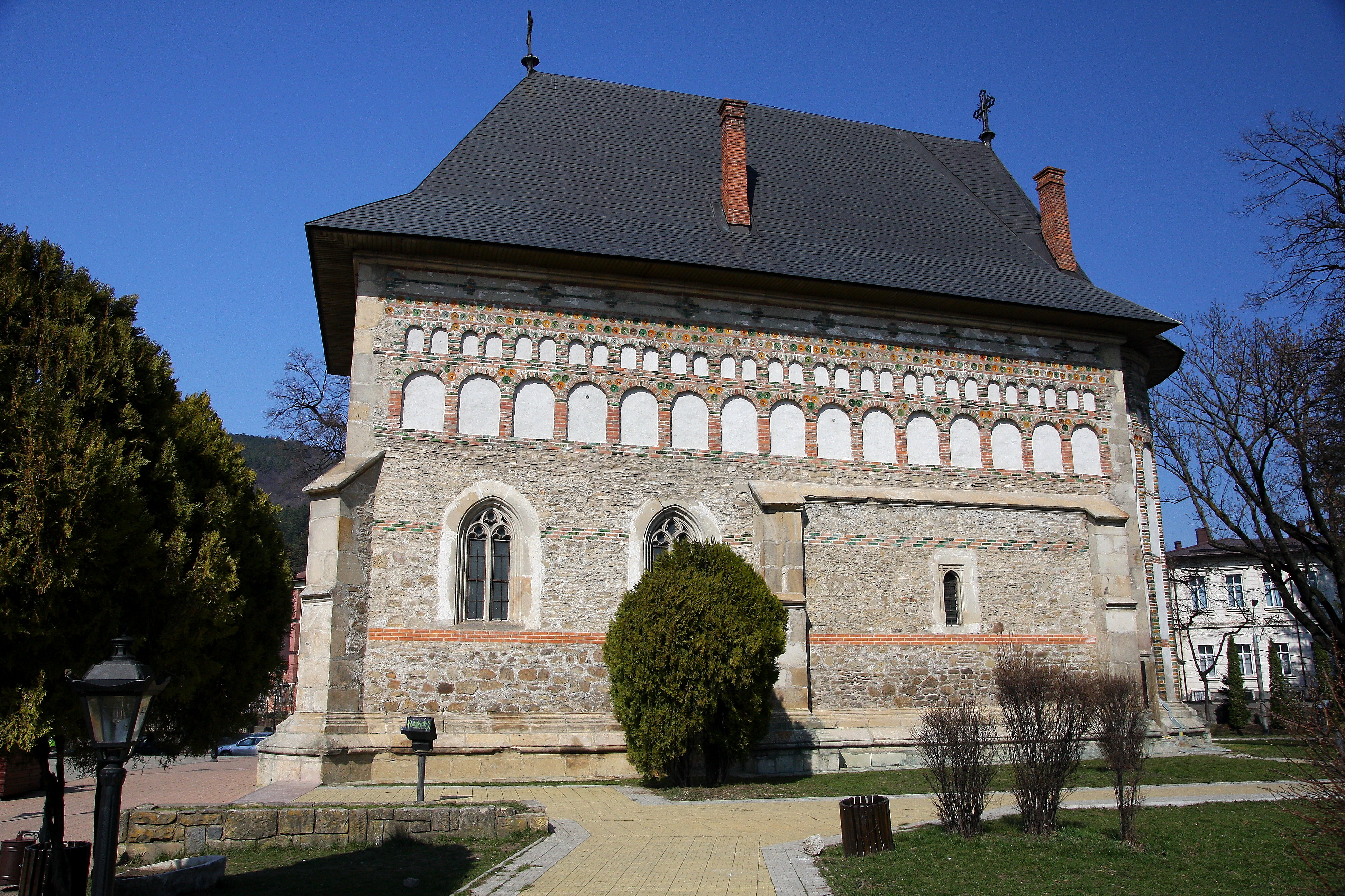 Piatra Neamt Church